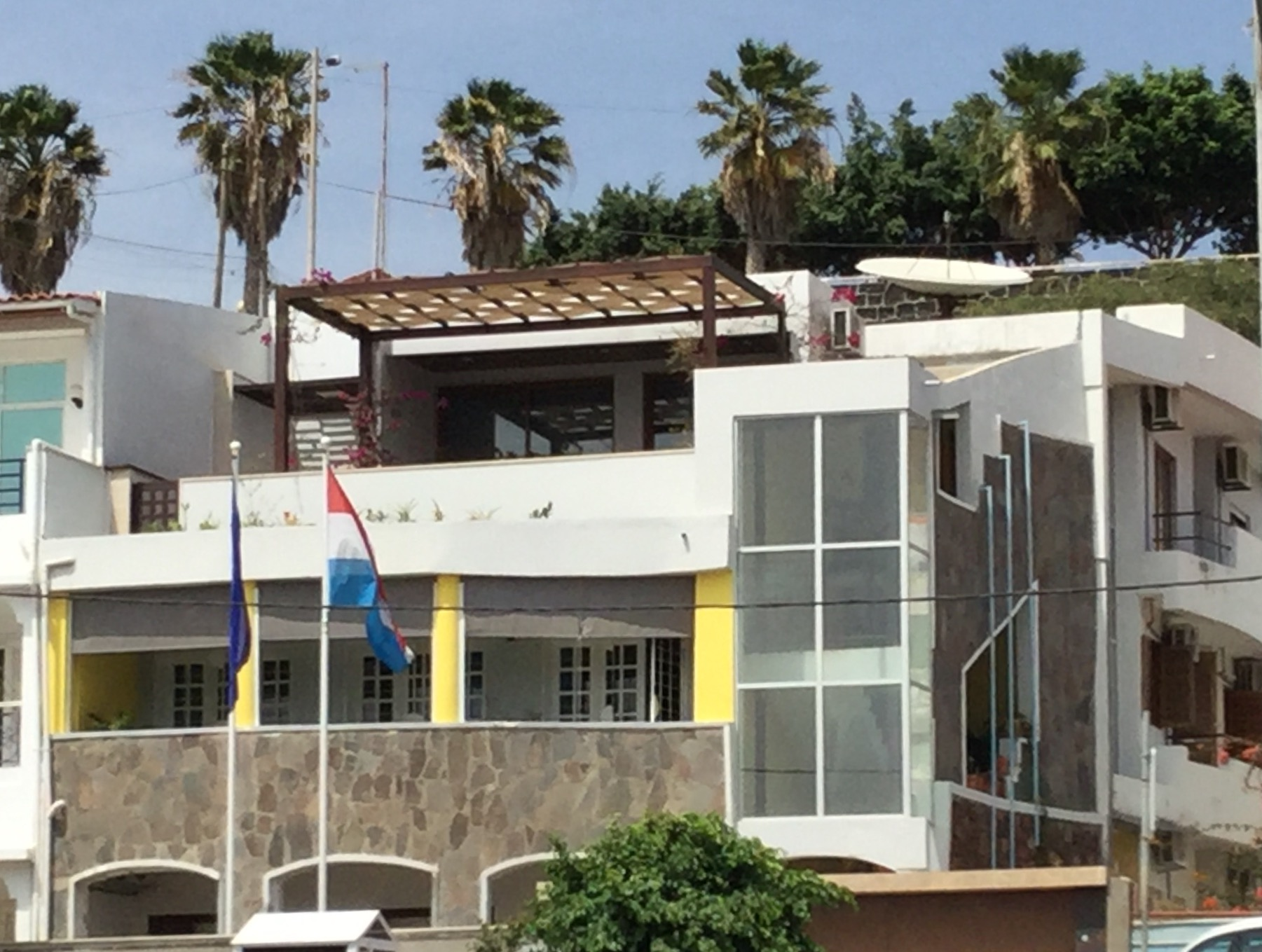 Luxembourg Cooperation Office in Praia, Cabo Verde.